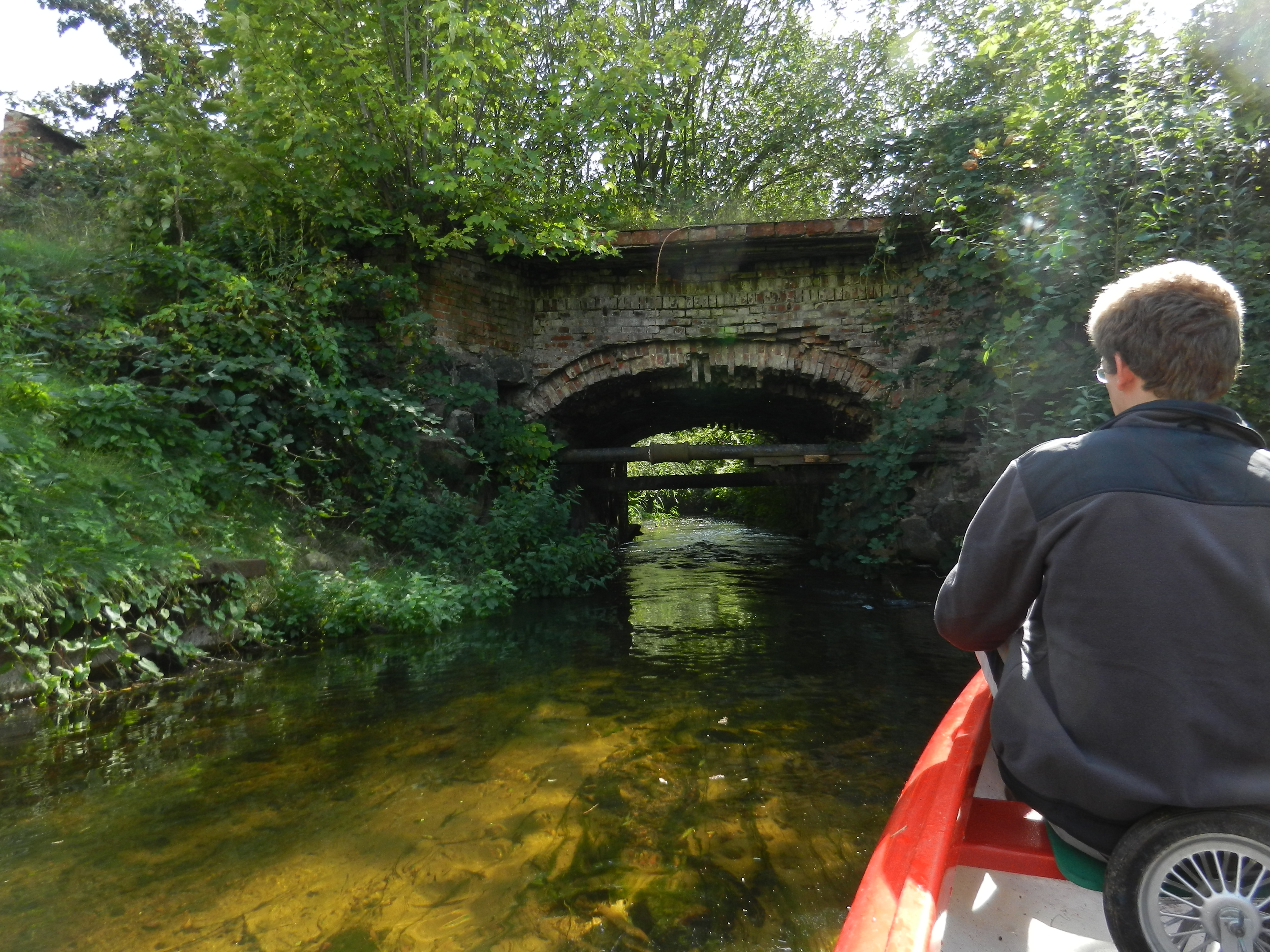 Aubach bridge from 1773 in Schwerin, Germany